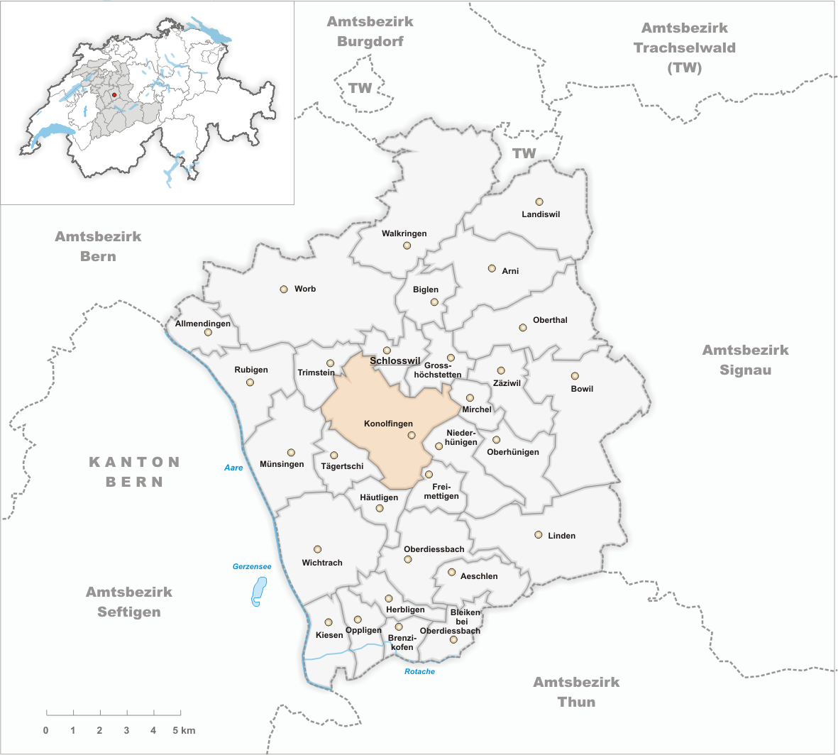 Municipality Konolfingen